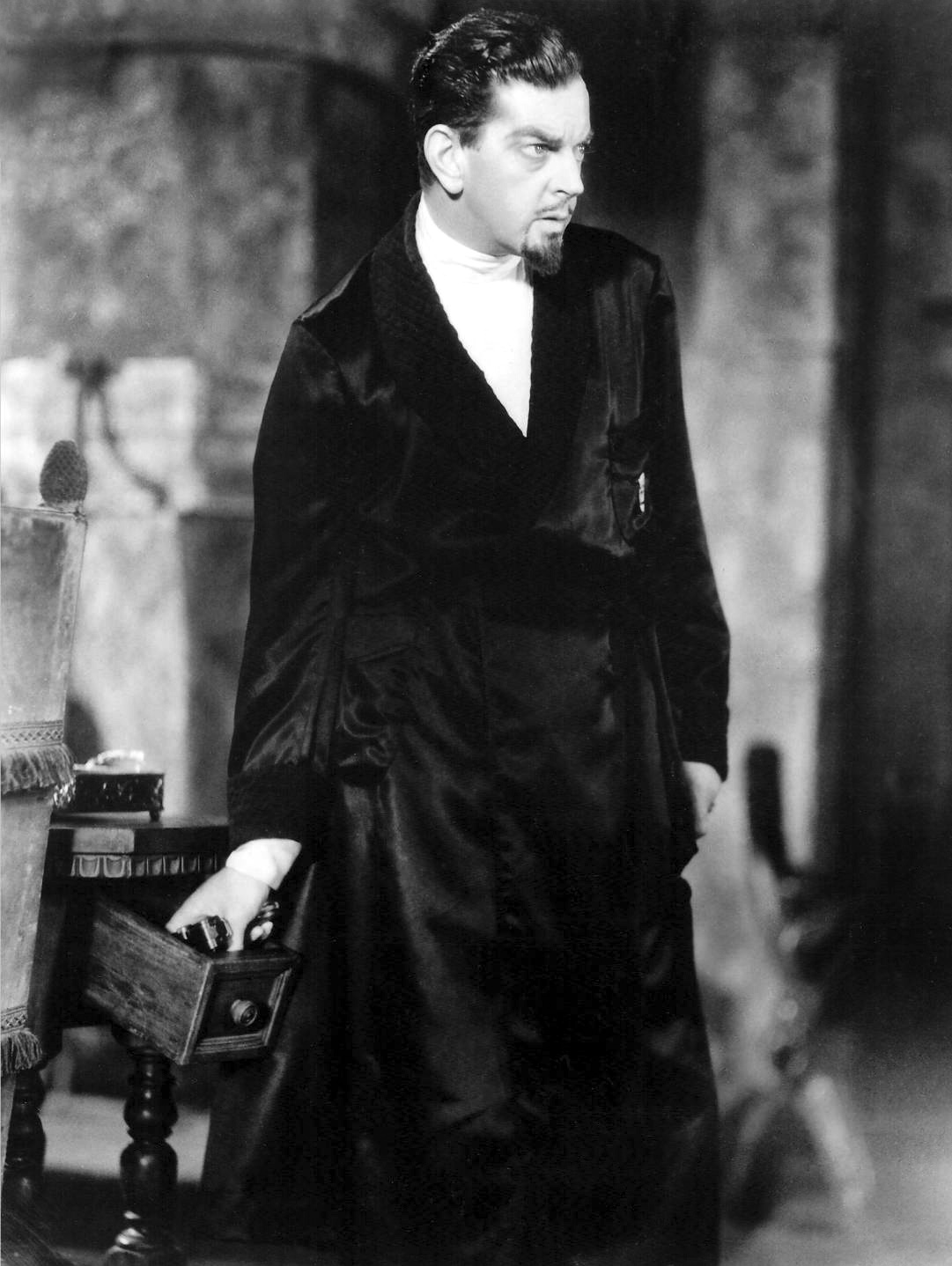 Leslie Banks in The Most Dangerous Game - cropped screenshot